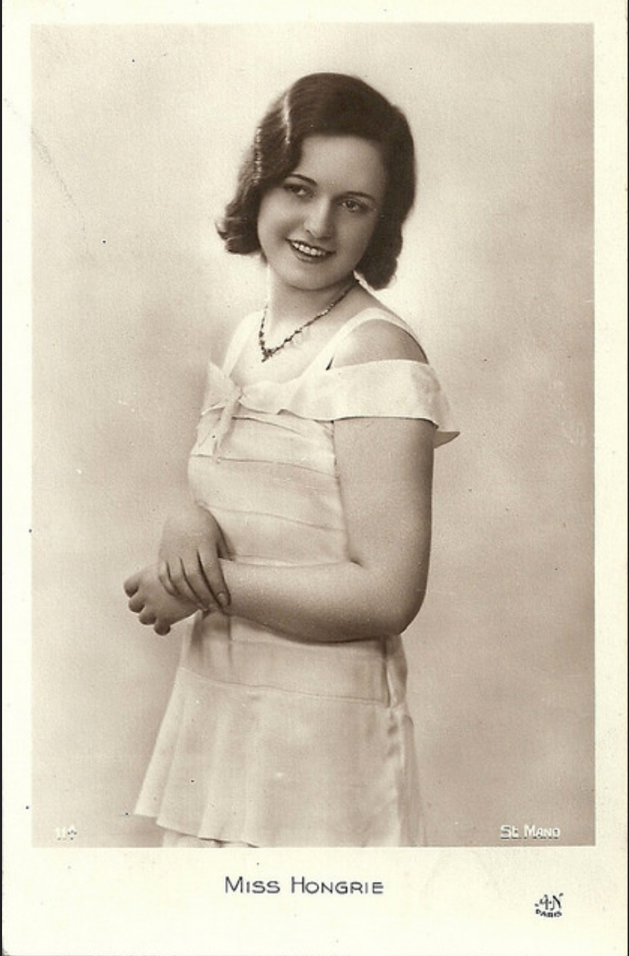 Miss Hongrie 1931